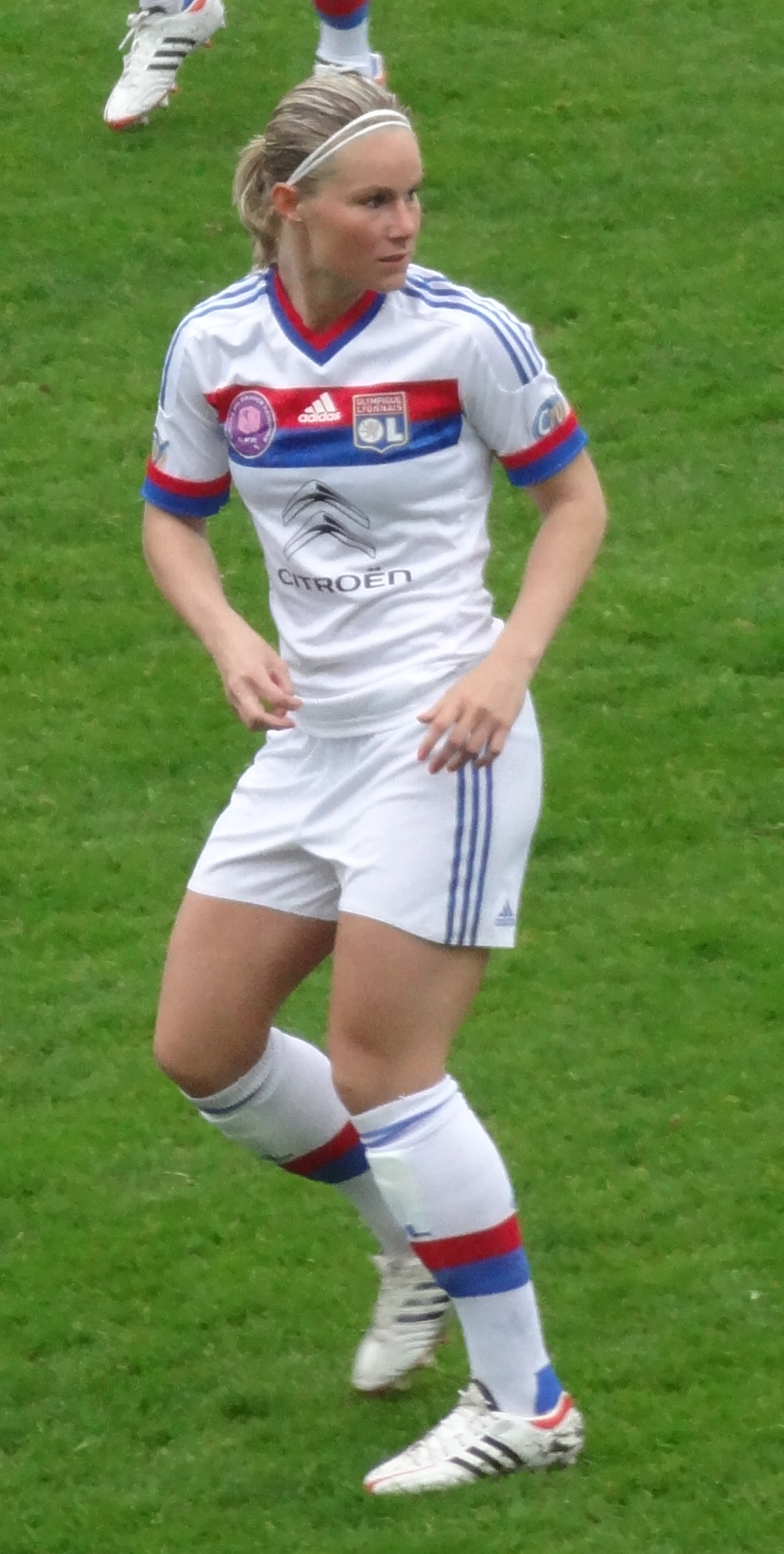 Amandine Henry (Olympique Lyonnais)